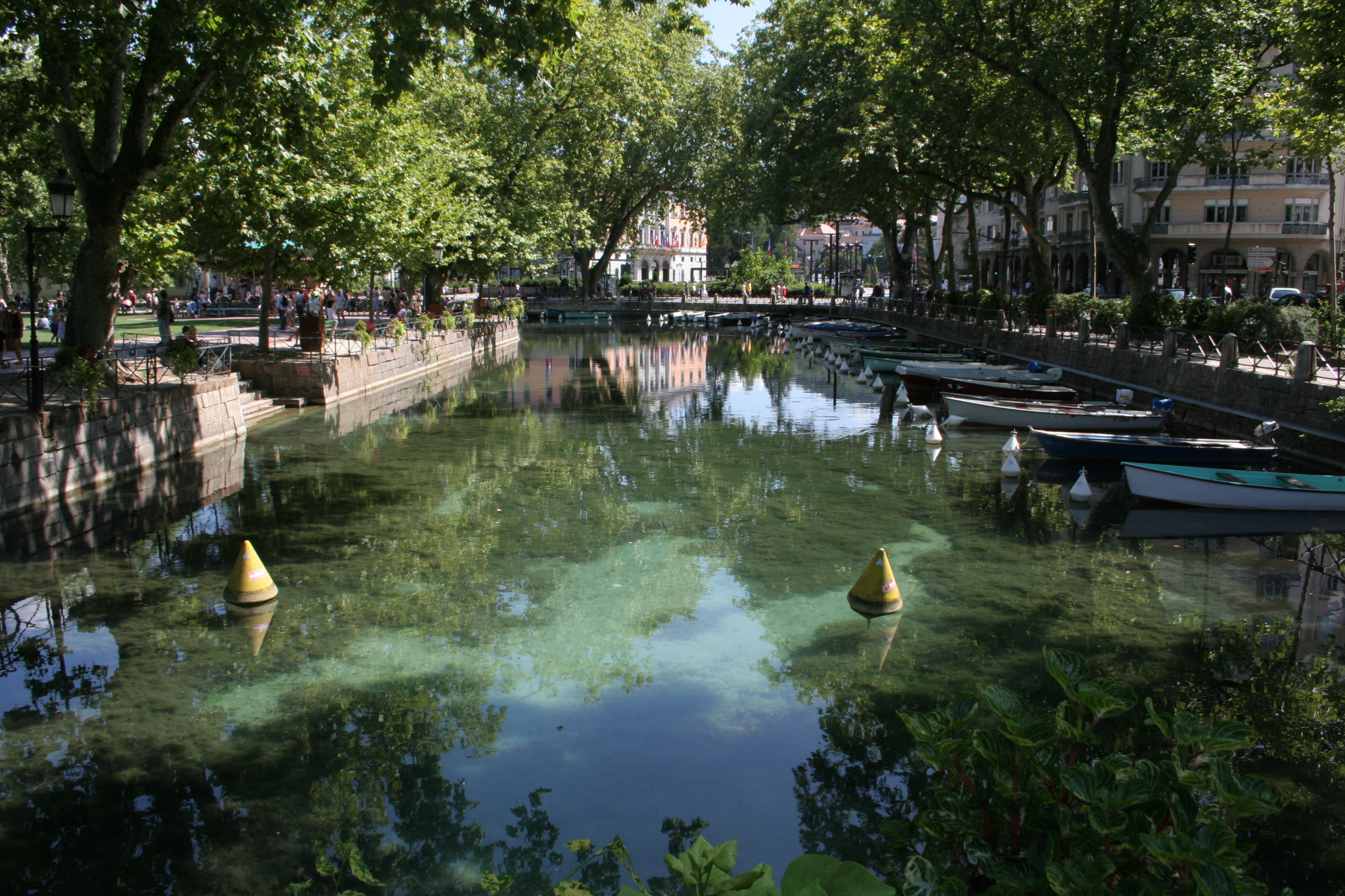 Canal du Vassé, city of Annecy France